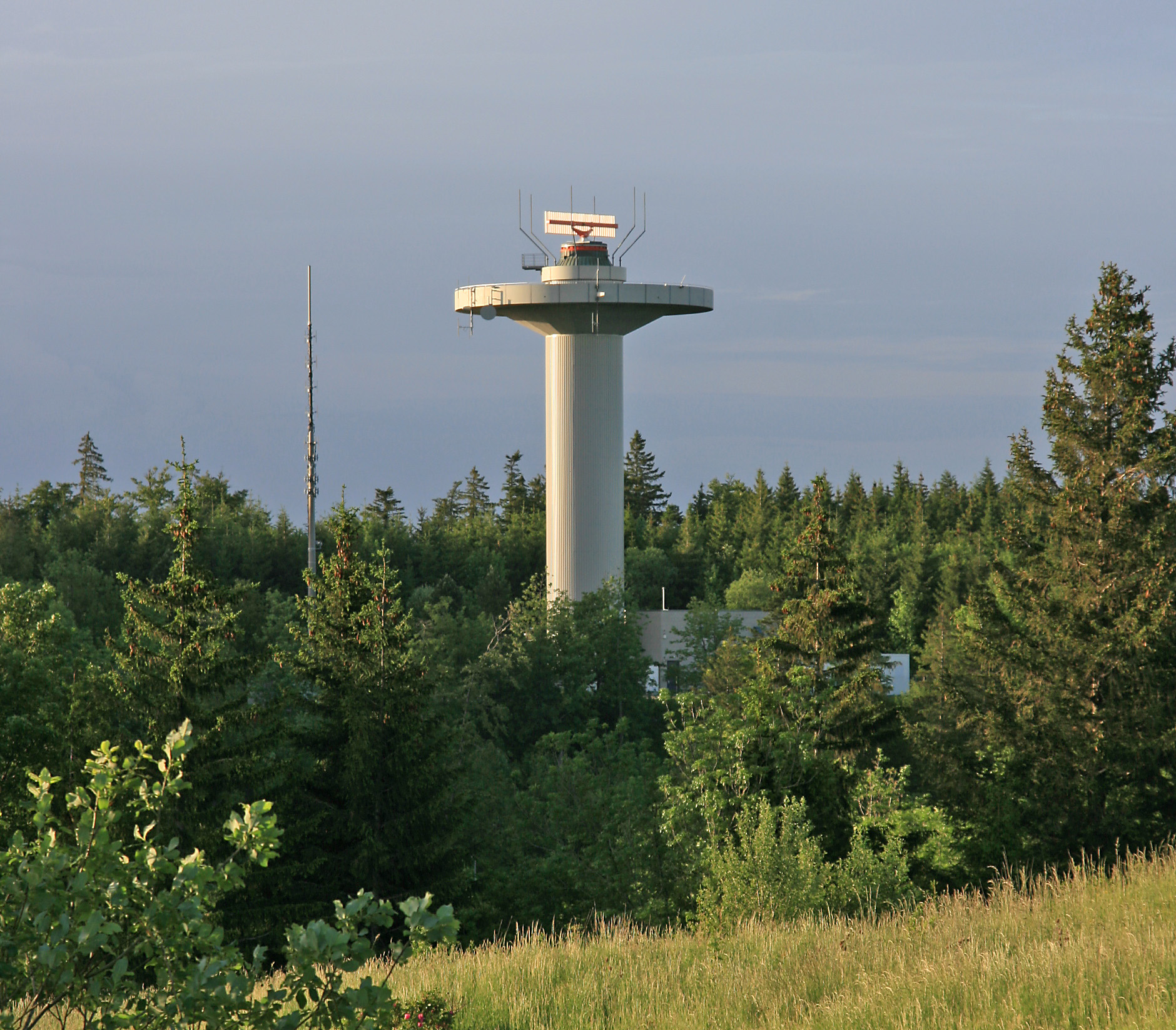 Der Radarturm auf dem Hochwald The radar station of top of the Hochwald